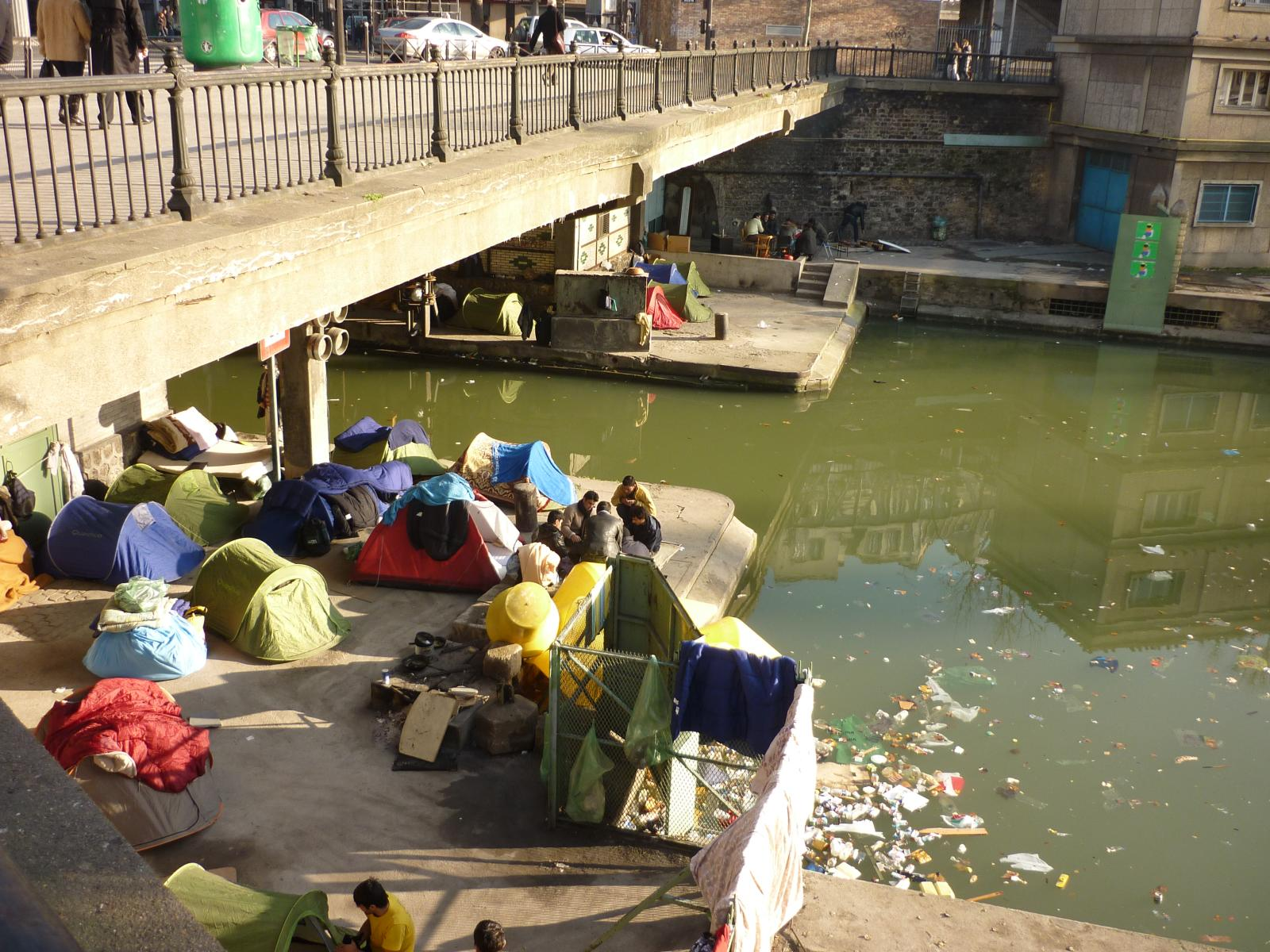 A large group of Afghan refugees have begun living on the Canal Saint Martin underneath a bridge. They are all young men (around 20 years old). They appear to have organized themselves well. The local community is not happy as they are filling the canal with trash.